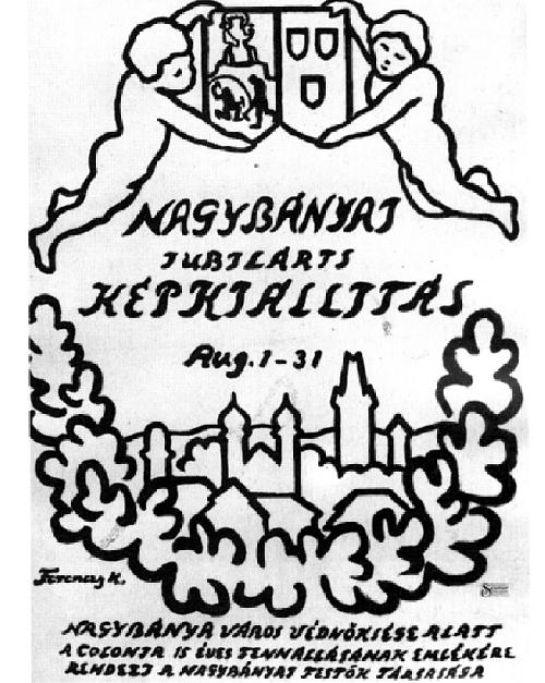 Poster, 1912